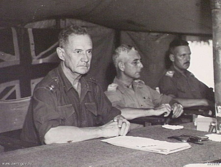 From left to right: Lt. Col. Maxwell Hall, Lt. Col. Cochrane, and Major Greville presiding over a war crimes trial of Japanese officers of the Borneo Prisoners of War and Internees Guard Unit. The trial was conducted on Labuan Island (now a federal territory of Malaysia).